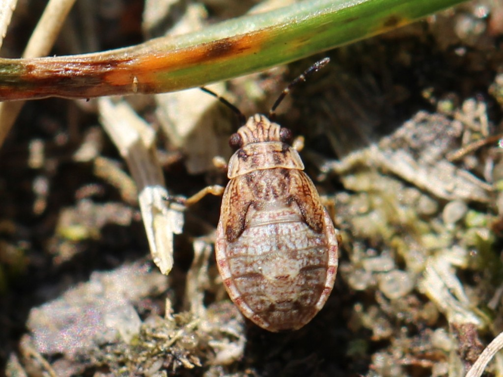 Nysius ericae